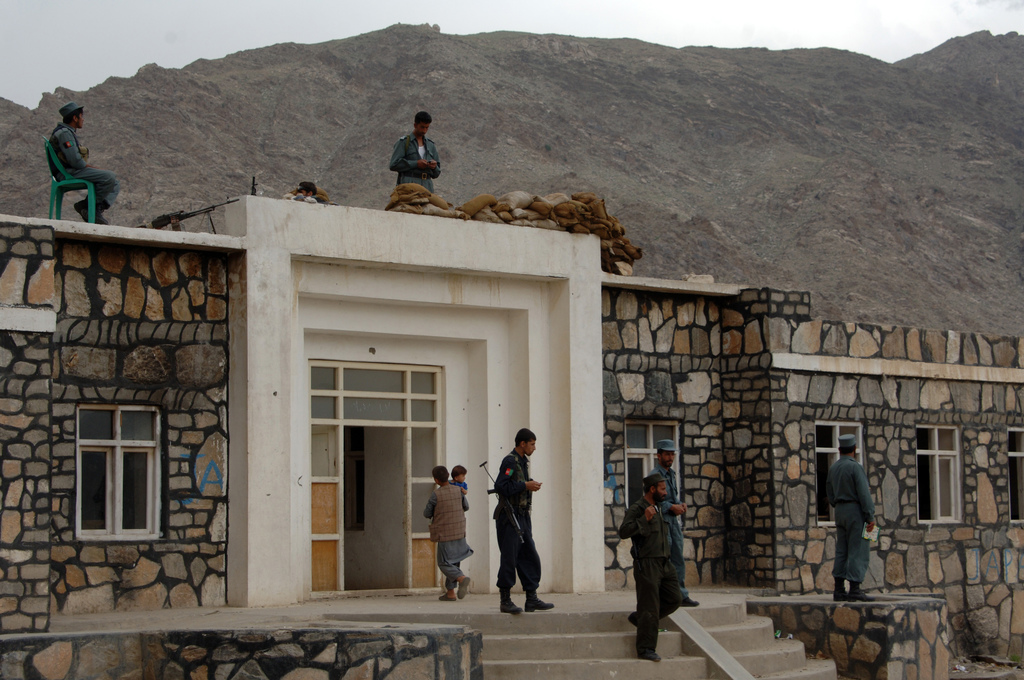 Afghanistan Naitonal Police set up security outside of a school where a Medical Civill Affairs Project will be conducted in the district of Tagab of the Kapisa Province, Afghanistan. (Photo ID: 44115)